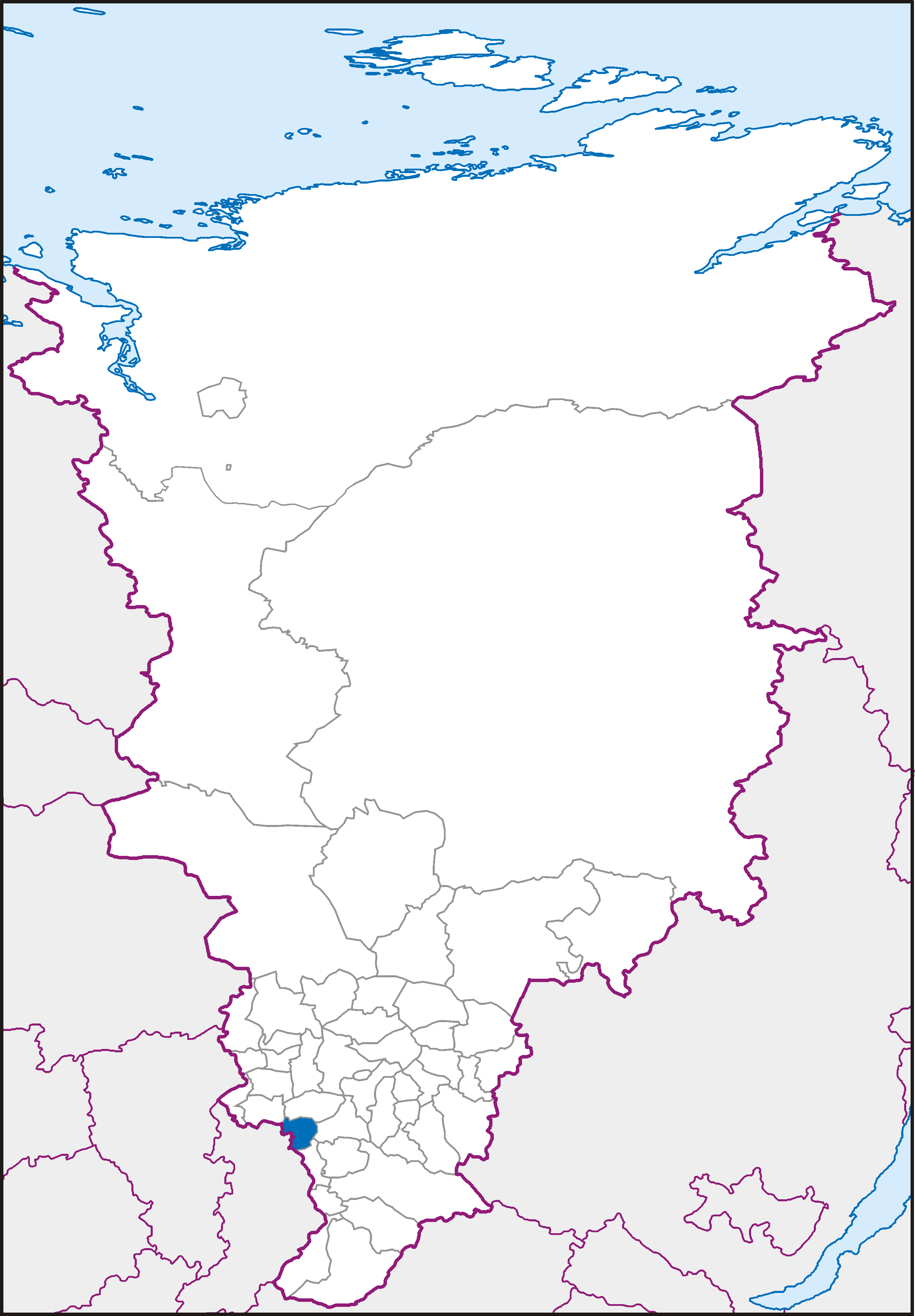 Map of Krasnoyarsk Krai in Albers Equal-Area Conic projection (Central Meridian = 95° E)